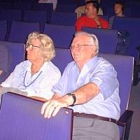 Alex Aljechin (son of Alexander Alekhine) and wife, Chess Days 2003 at Dortmund